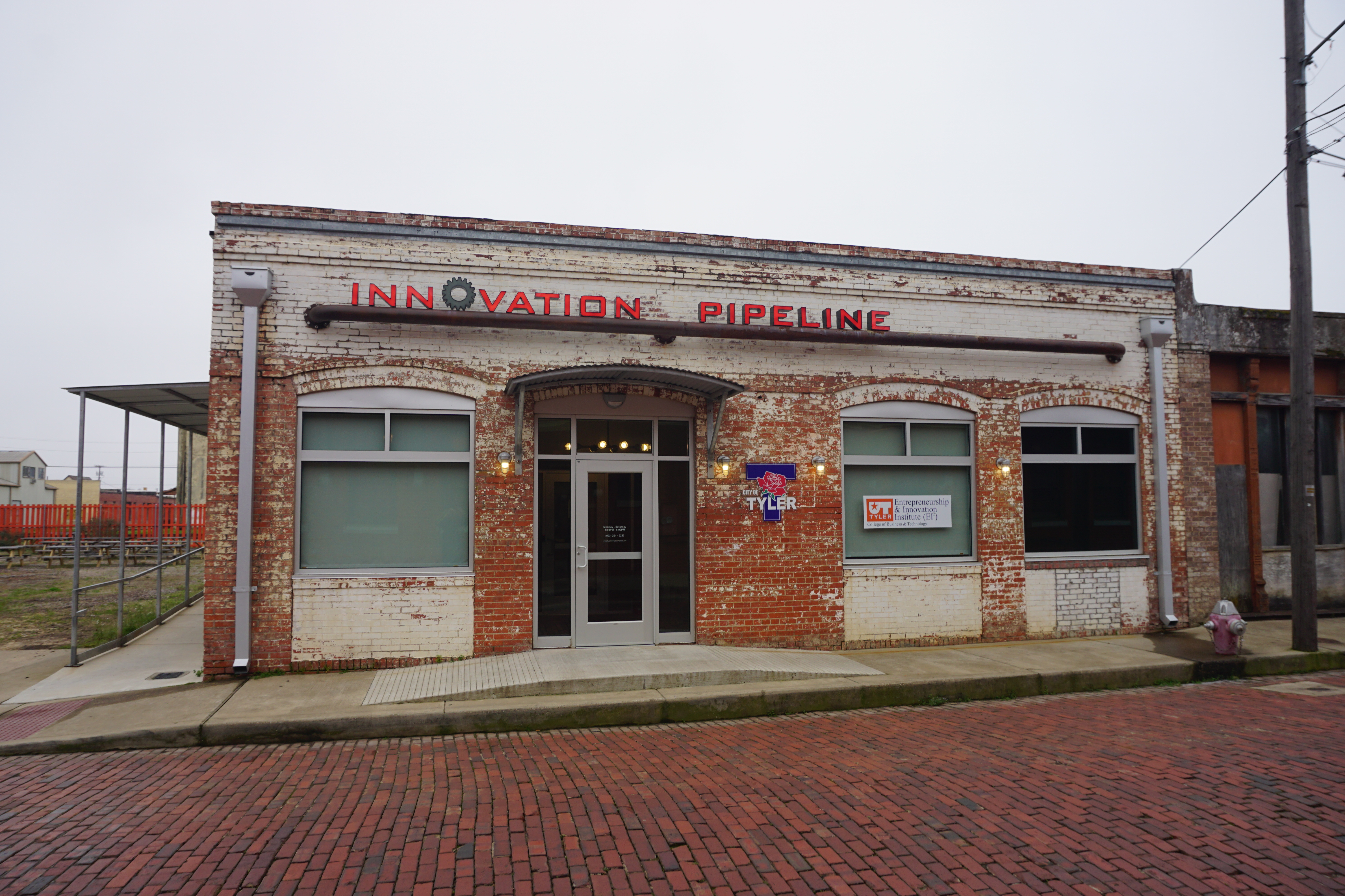 The Innovation Pipeline, a makerspace collaboration between the City of Tyler and the University of Texas at Tyler Soules College of Business Entrepreneurship & Innovation Institute, in Tyler, Texas (United States).